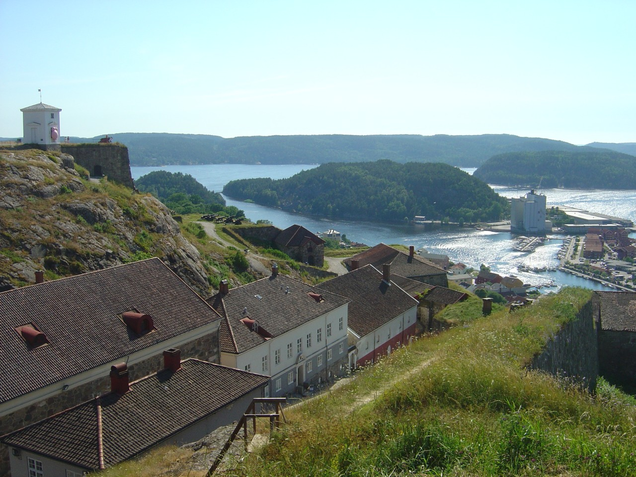 Fredriksten fortress, Halden, Norway. View from the top of the fortress to the city of Halden below it. Shot by Ulf Larsen, 11 June 2005, with Sony Cybershot DSC-P10 5 megapixel digital camera.